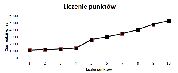 subitizing (based on: K. Landerl, L. Kaufmann)